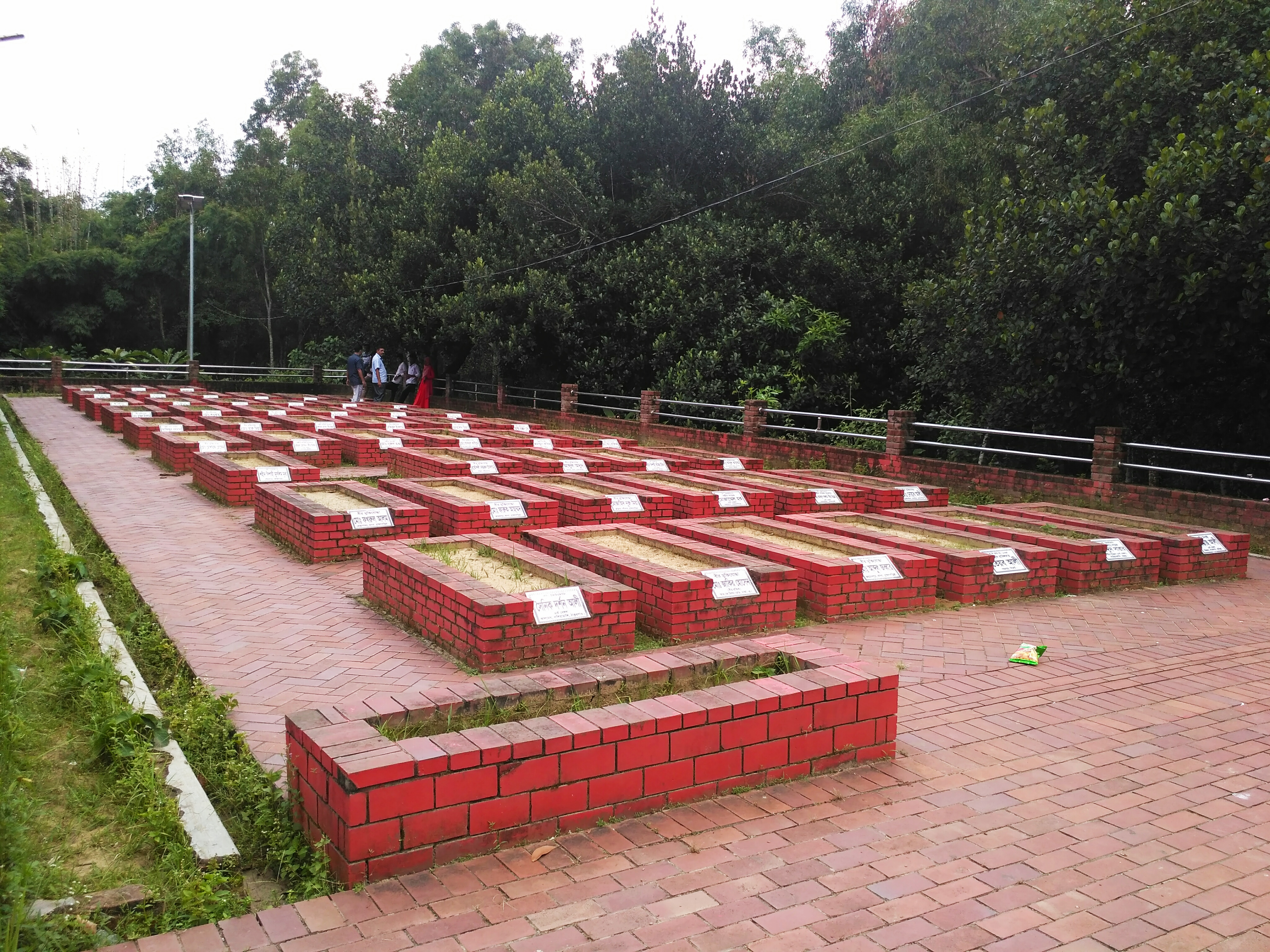 Kullapathar Martyrs Memorial, kasba, Brahmanbaria, Bangladesh. A Cemetery of martyrs freedom fighters in Bangladesh Liberation War of 1971. ( 01.09.2019)